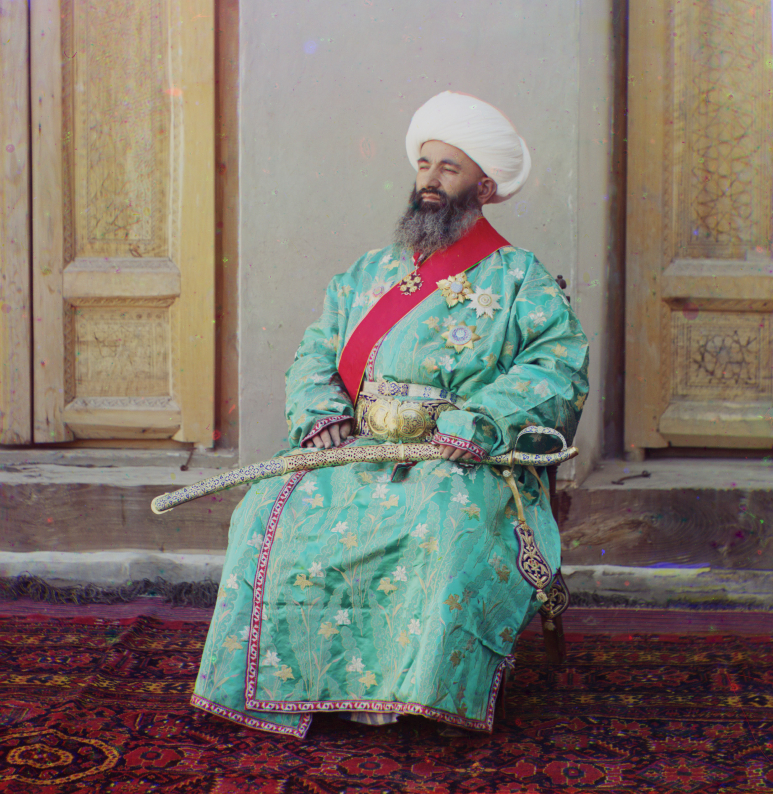 Kush-Beggi, Minister of Interior, Bukhara, Uzbekistan, wearing an imported silk-brocade robe, gilt-and-enameled saber, and medals.